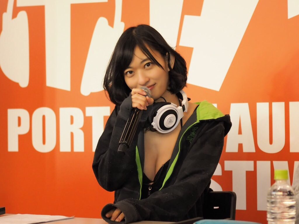 Yuka Kuramochi is a Japanese gravure idol.